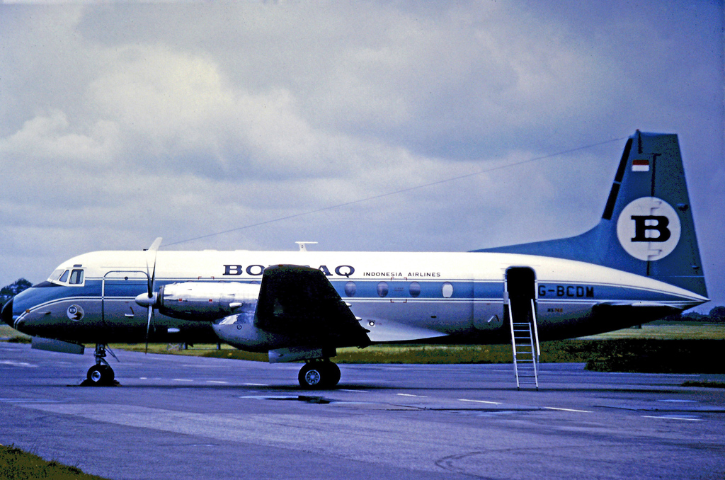 Hawker Siddeley 748 G-BCDM of Bouraq Indonesia Airlines at Chester in 1974